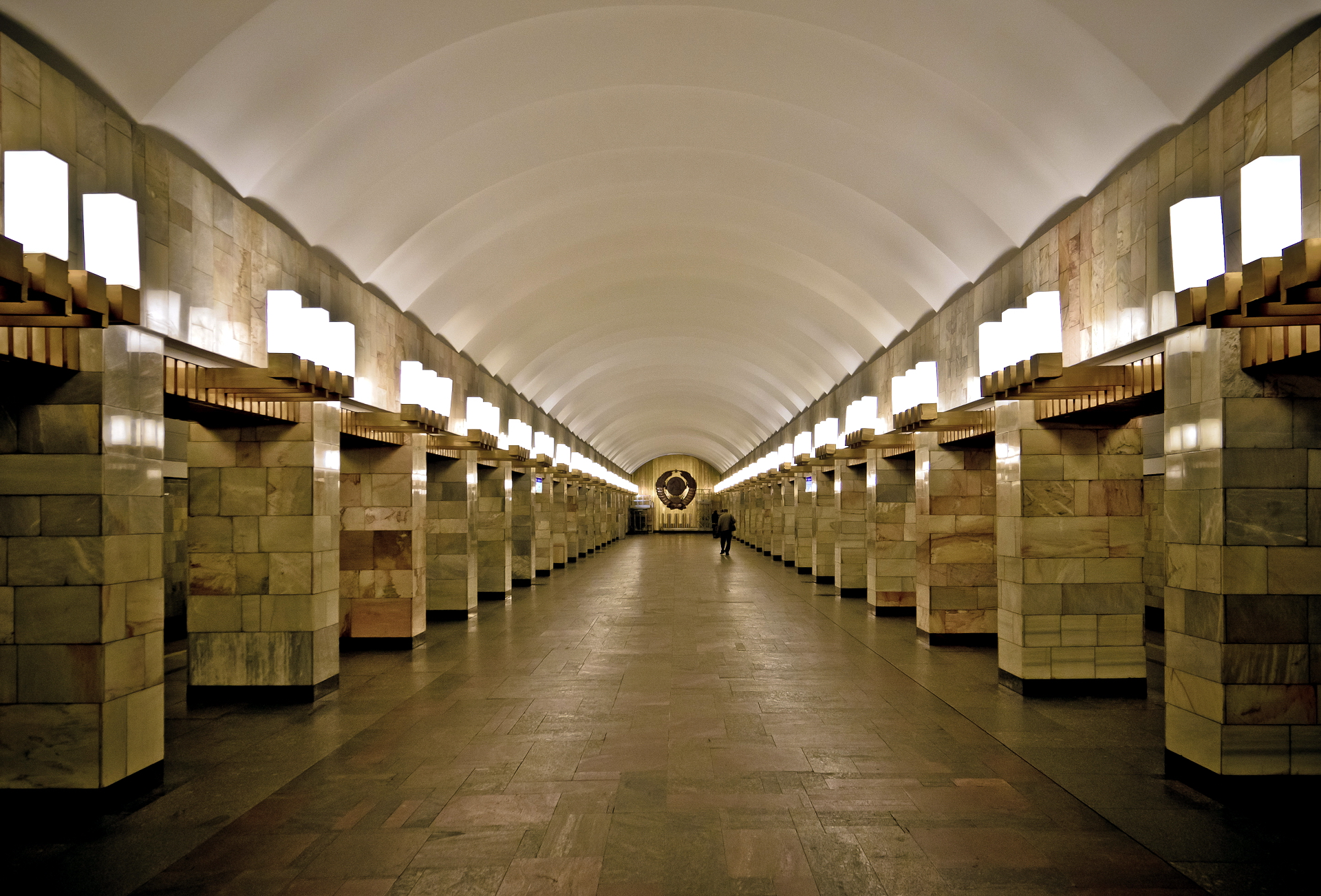 Grazhdansky Prospekt station of Saint Petersburg Subway